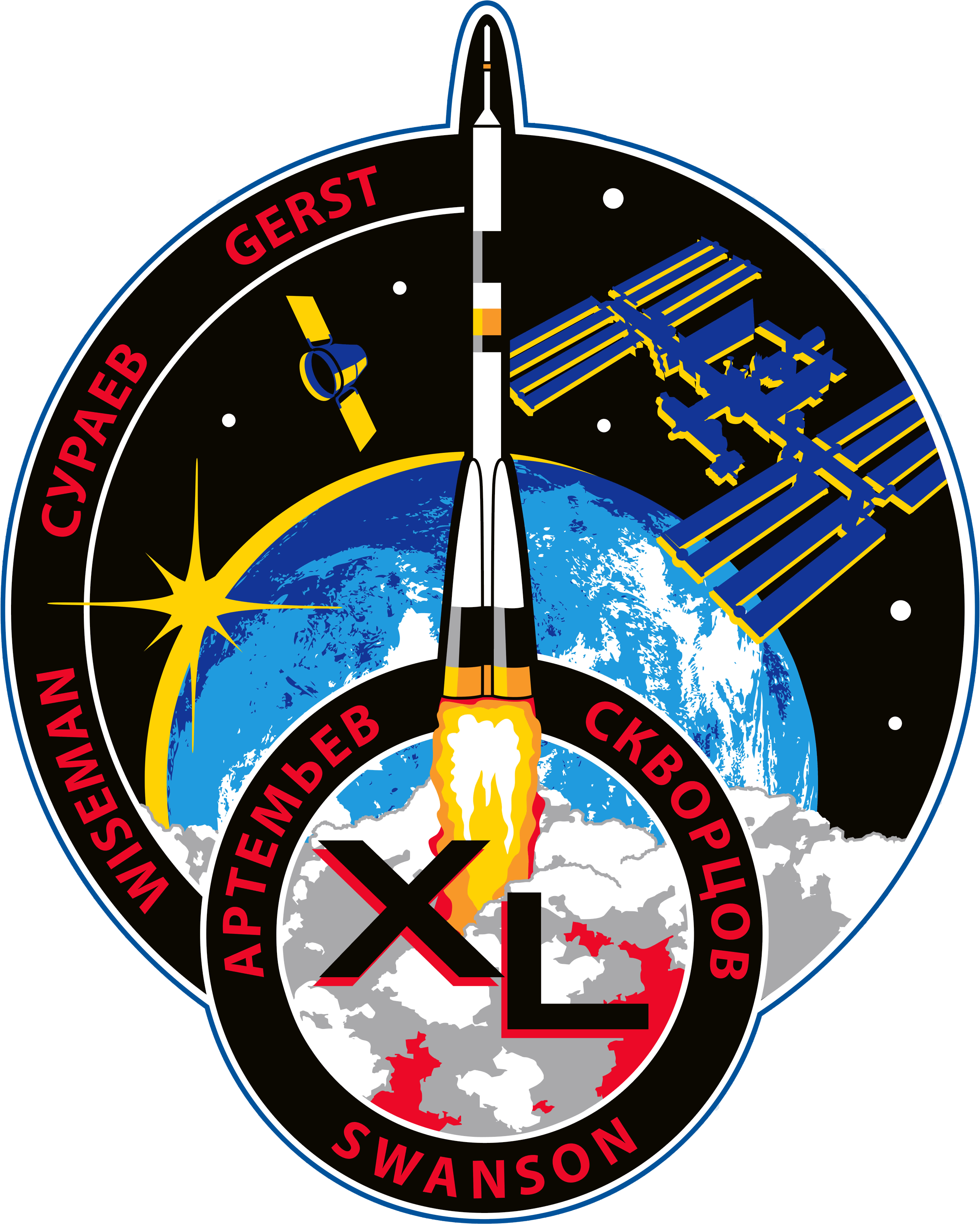 The Expedition 40 patch depicts the past, present, and future of human space exploration. The crew wrote the description that follows: The reliable and proven Soyuz, our ride to the International Space Station (ISS), is a part of the past, present, and future. The ISS is the culmination of an enormous effort by many countries partnering to produce a first-class orbiting laboratory, and its image represents the current state of space exploration. The ISS is immensely significant to us as our home away from home and our oasis in the sky. The commercial cargo vehicle is also part of the current human space exploration and is a link to the future. A blend of legacy and future technologies is being used to create the next spacecrafts which will carry humans from our planet to destinations beyond. The sun on Earth's horizon represents the new achievements and technologies that will come about due to our continued effort in space exploration.